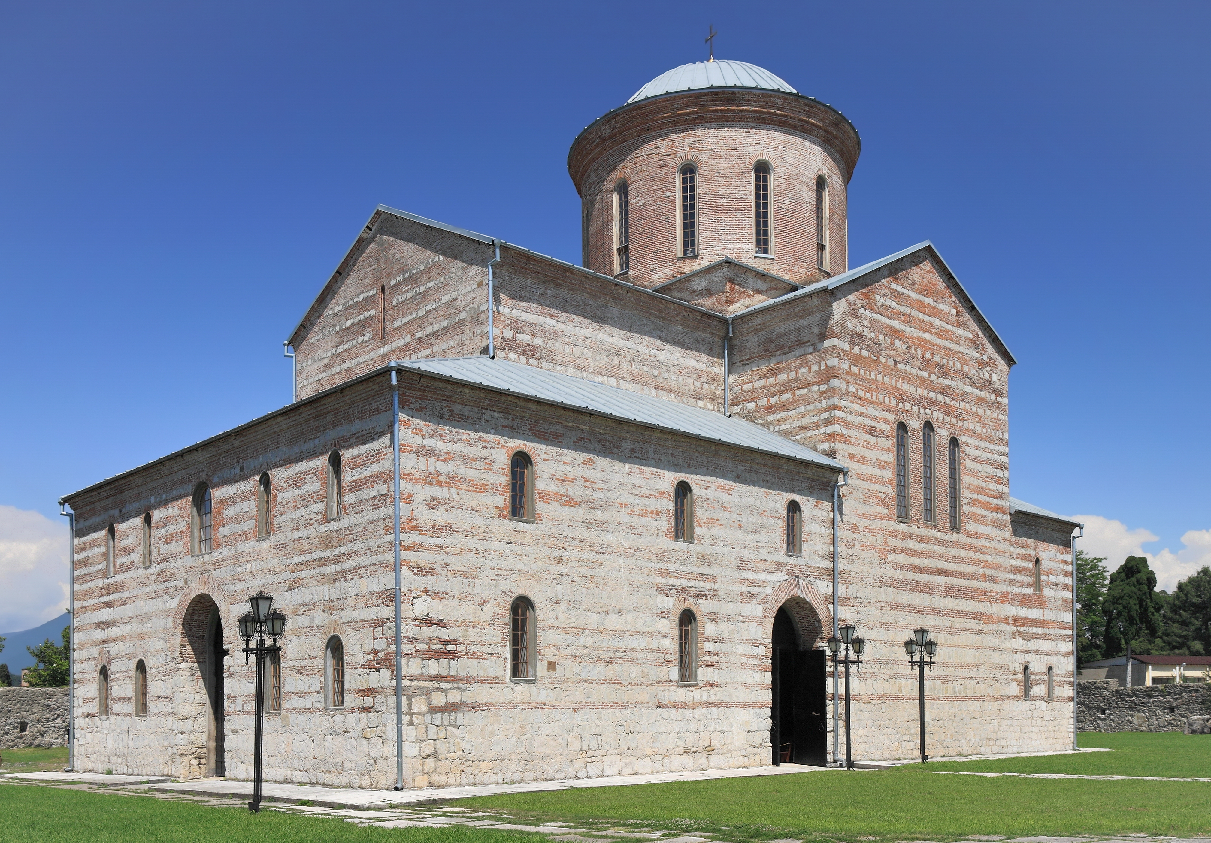 St. Andrew the Apostle Cathedral. Pitsunda, Gagra District, Abkhazia.